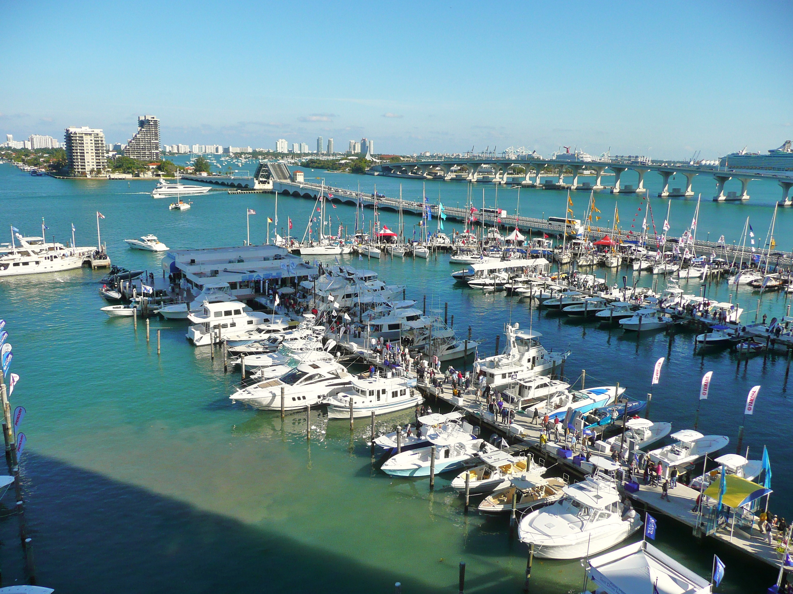 Digital photo taken by Marc Averette. The Sea Isle Marina in Downtown Miami, Florida, United States.